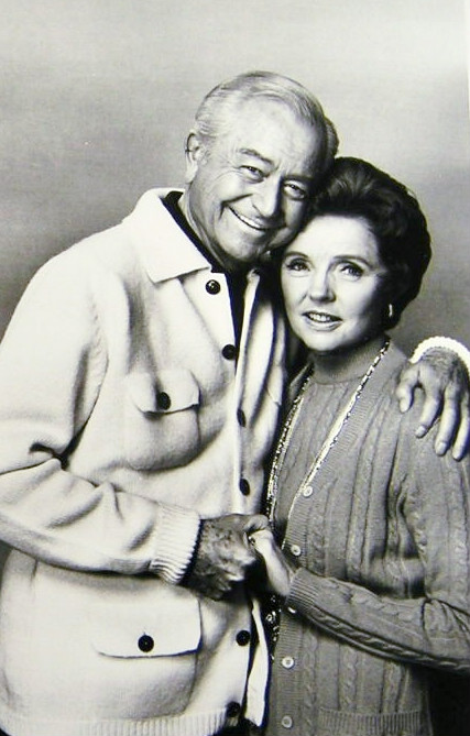 Publicity photo of Jane Wyatt and Robert Young from the television show Marcus Welby, M.D.. Note that ABC had issued a "double photo" with Wyatt and Young shown in a 1950s photo from Father Knows Best as well as a photo from Marcus Welby, M.D..